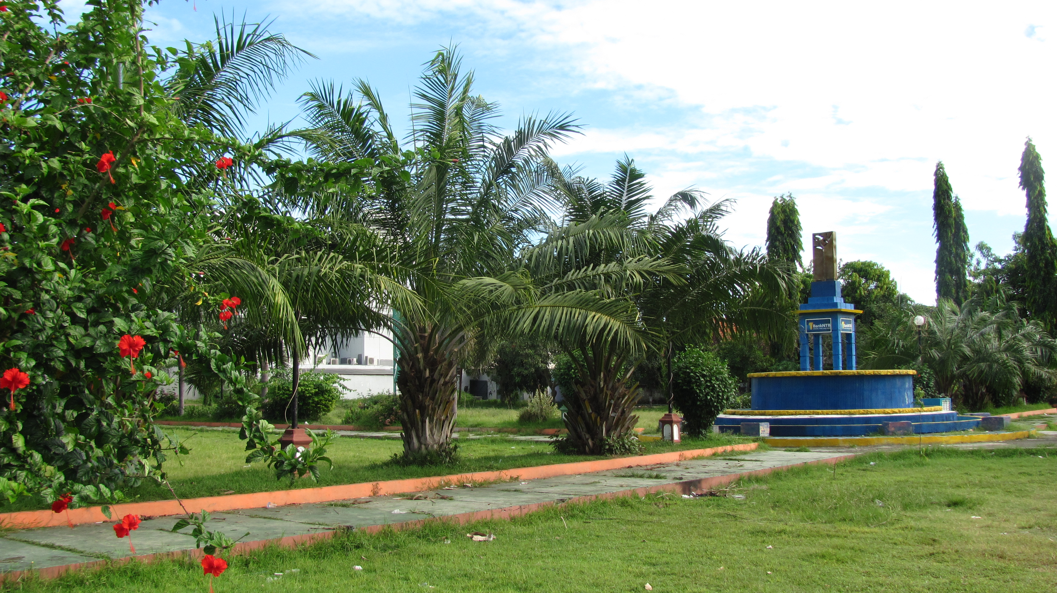 Taman Krato Park, City of Sumbawa Besar, Sumbawa Island, Indonesia